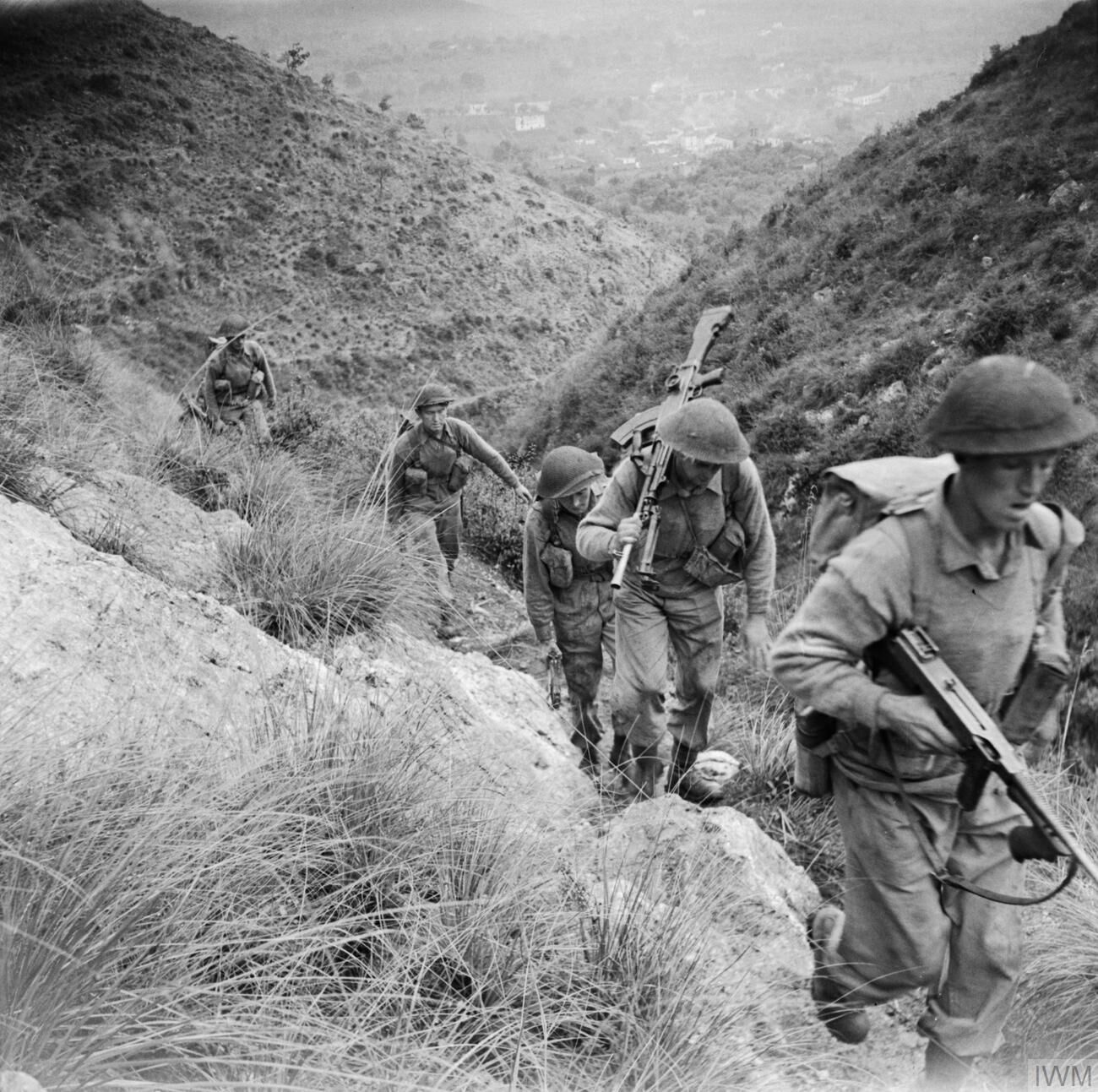 The British Army in Italy 1943 Men of the 10th Royal Berkshire Regiment move up to the heights of Calvi-Risorta, 27 October 1943